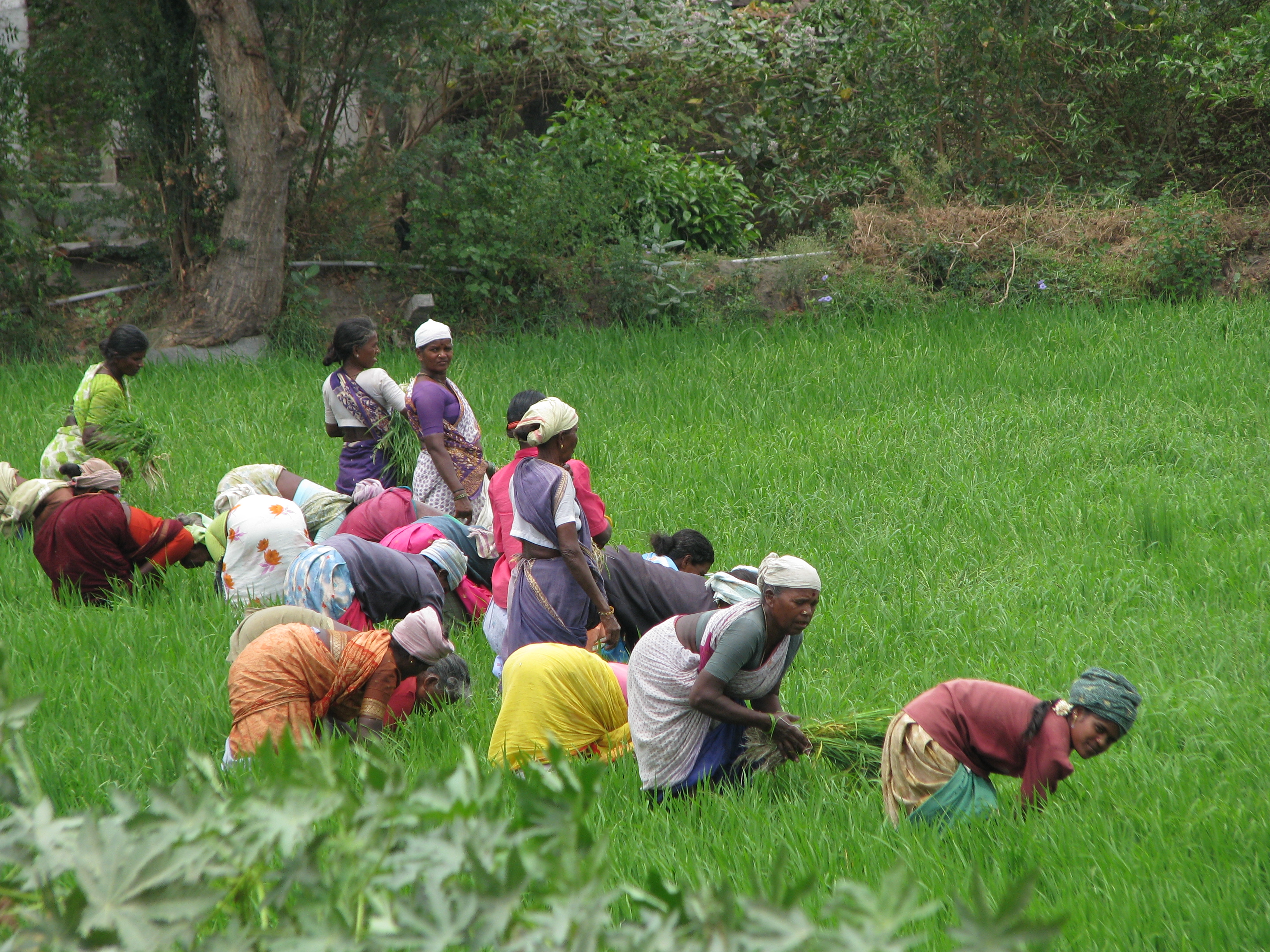 Women harvesting rice paddy in Tamil Nadu, India. Uploaded by Fowler&fowler (talk) 20:32, 9 September 2012 (UTC)